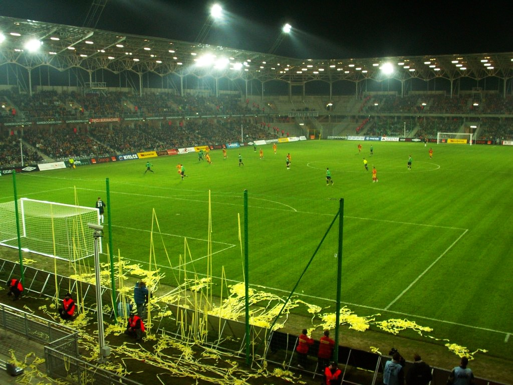 View from opening new stadium in Kielce (Poland)